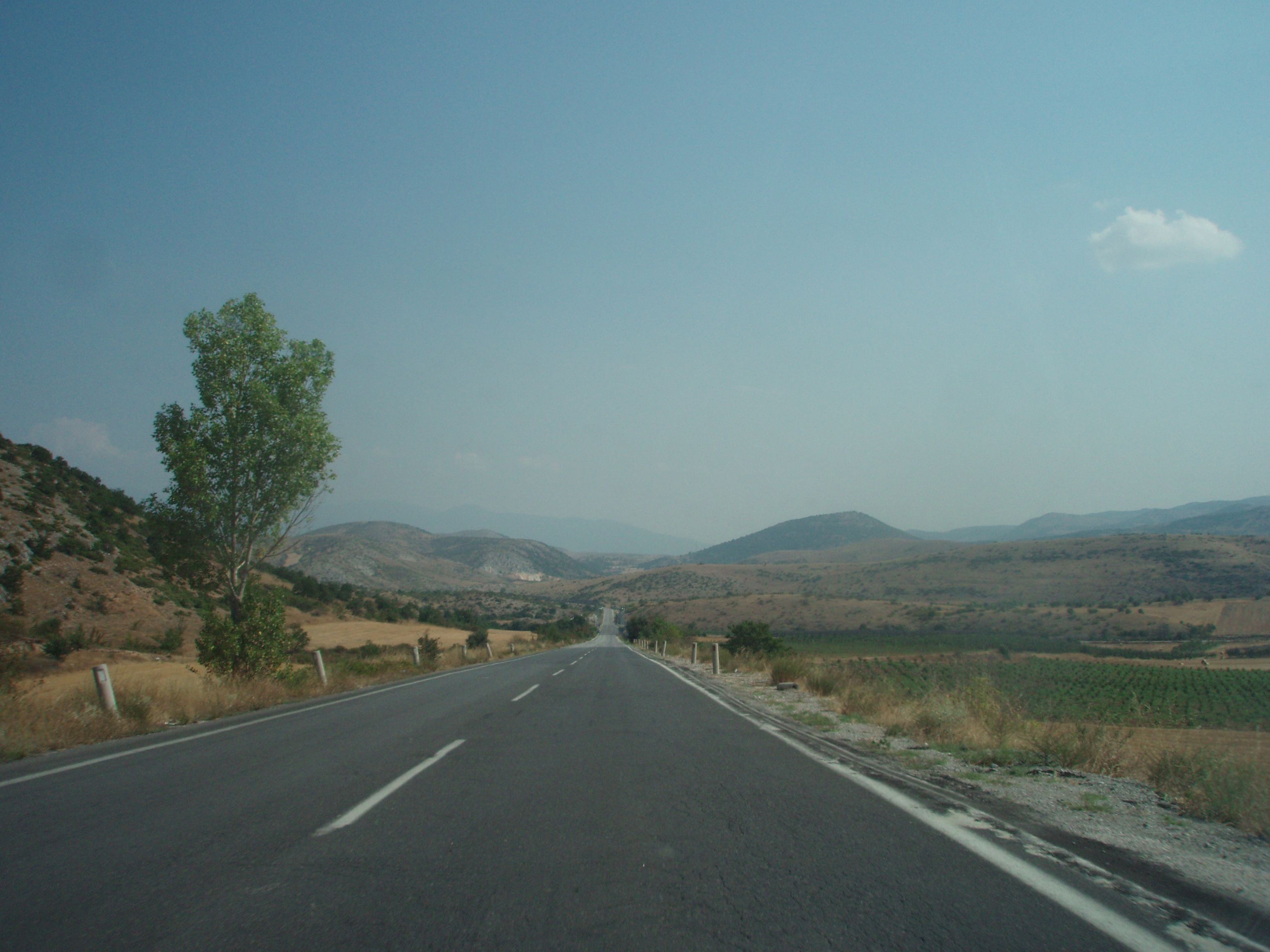 National Road 2 in Greece. Section Amyntaio-Arnissa.